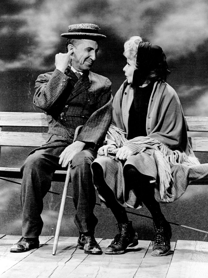 Photo of comedians Ben Blue and Lucille Ball in a comedy skit for Jack Benny's March 1968 television special.